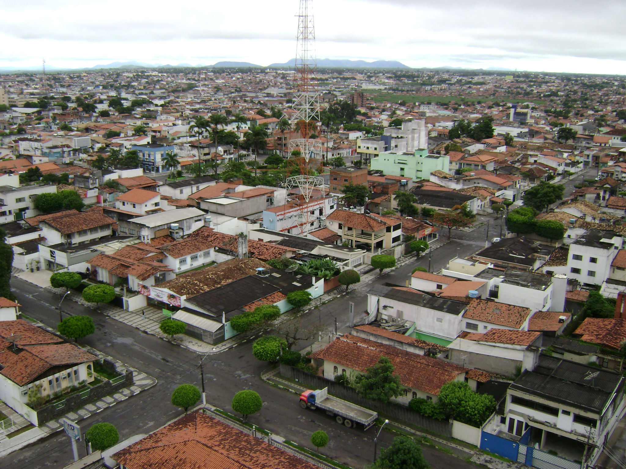 Vista de Feira de Santana através de um edifício.